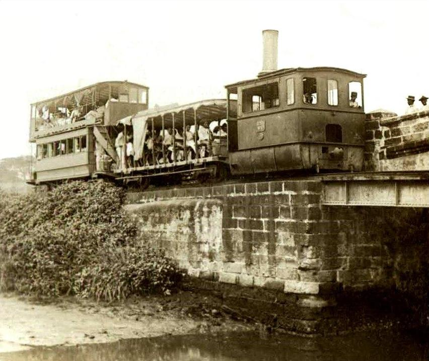 Steam-powered tranvia that served Malabon and Tondo from 1888 to 1898. Service originated from Tondo at 5:30 a.m. and ended at 7:30 p.m., while trips from Malabon were from 6:00 a.m. until 8:00 p.m., every hour on the hour in the mornings and every half hour beginning 1:30 p.m in the afternoons if there were many passengers.